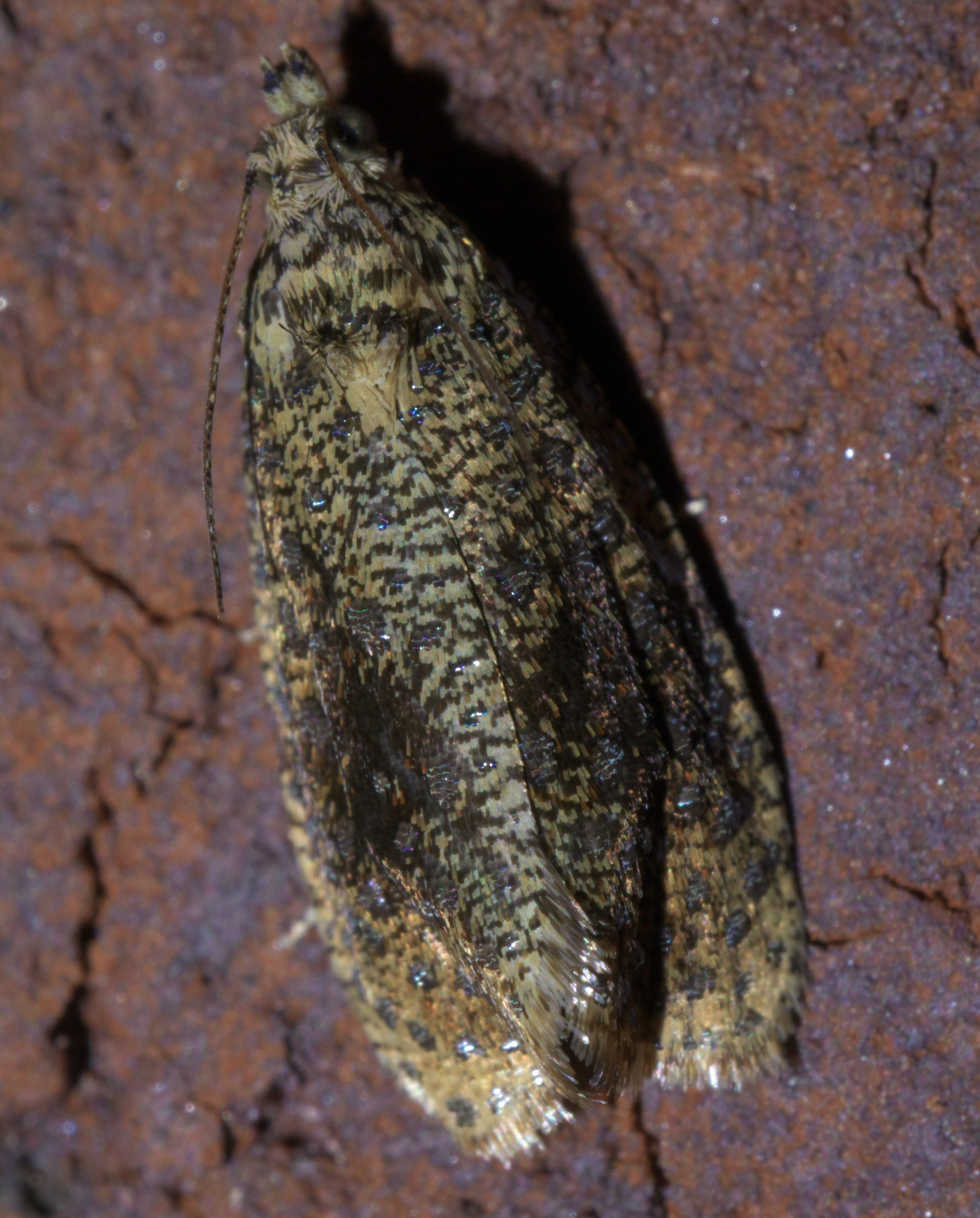 Olethreutes astrologana, The Astronomer - Hodges #2837, Size: 10.3 mm, ID Confidence: 90